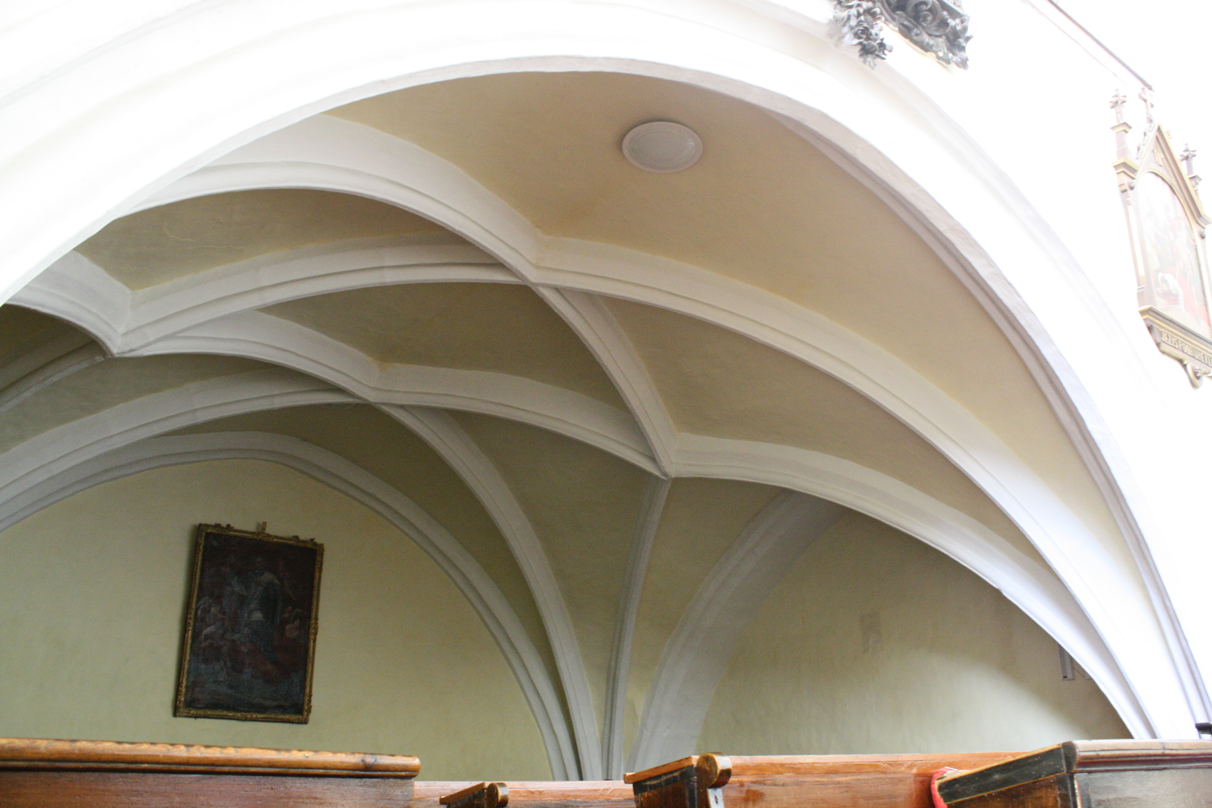 Borovany, Church of the Visitation of Our Lady